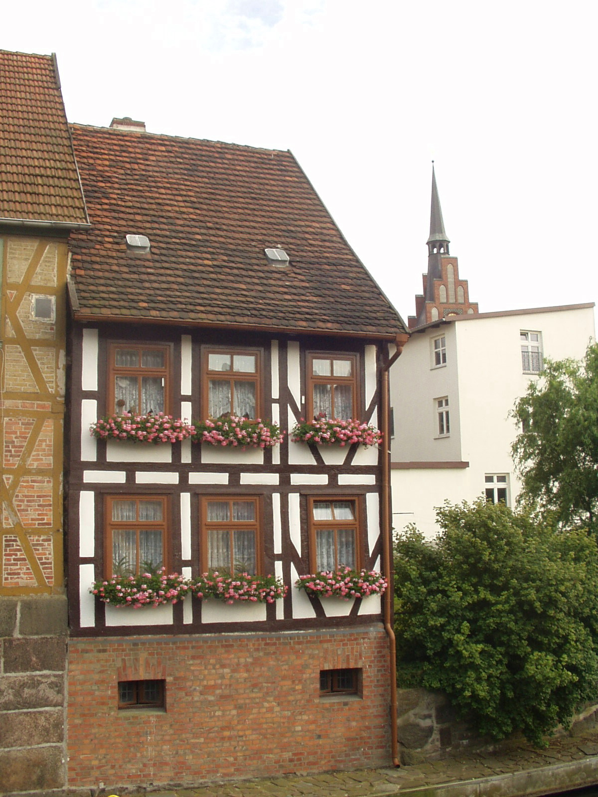 Grabow (Elde), Mecklenburg-Vorpommern, Germany, Cityview.